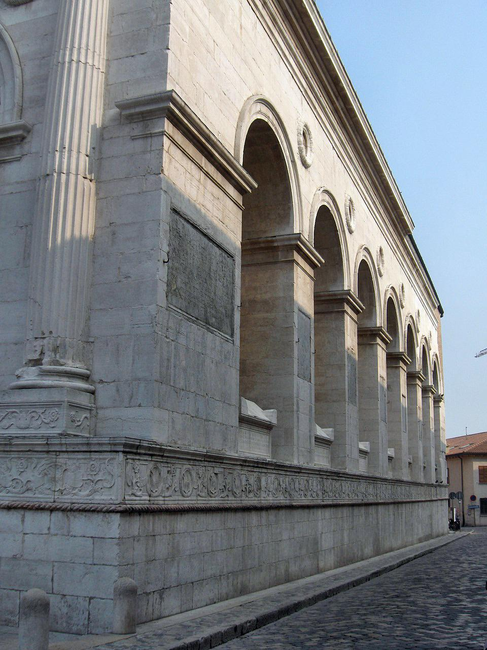 Mathematical succession of arches (containing the tombs of several illustrious person from the 15th and 16th centuries) along the sides of the Malatesta Temple, Rimini, Italy